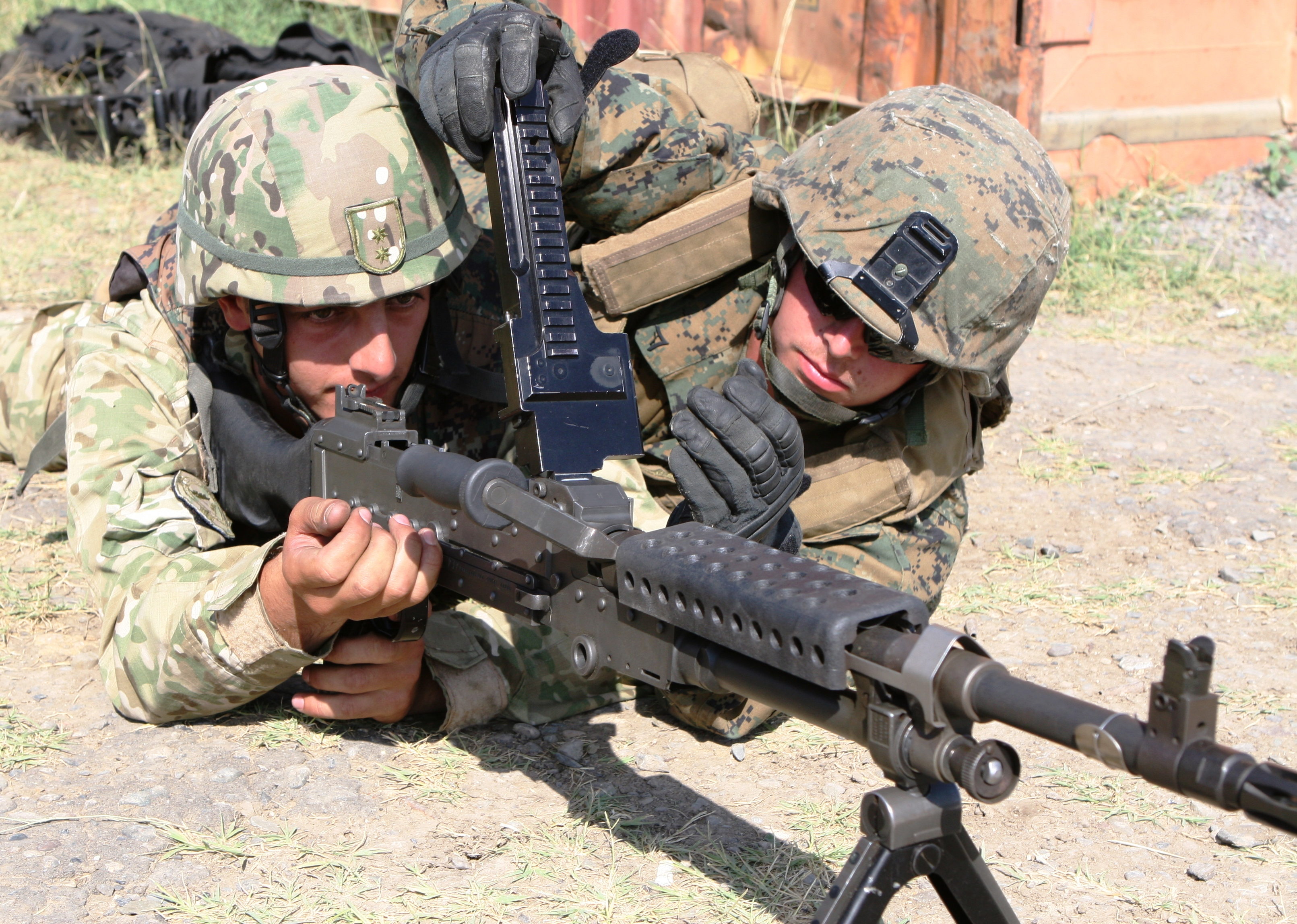 A machine gunner from Machine Gun Platoon, Support Company, Anti-Terrorism Battalion, 4th Marine Division, clears the M240B machine gun for a Georgian soldier during training here July 25 for Exercise Agile Spirit 2011. Agile Spirit is designed to increase interoperability between Marines and the Georgian Armed Forces by exchanging and enhancing each other’s capacity in counterinsurgency and peacekeeping operations, including: small unit tactics, convoy operations, and counter-Improvised Explosive Device training.